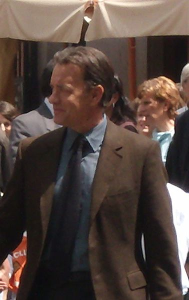 Tom Hanks outside of the Pantheon in Rome during production.